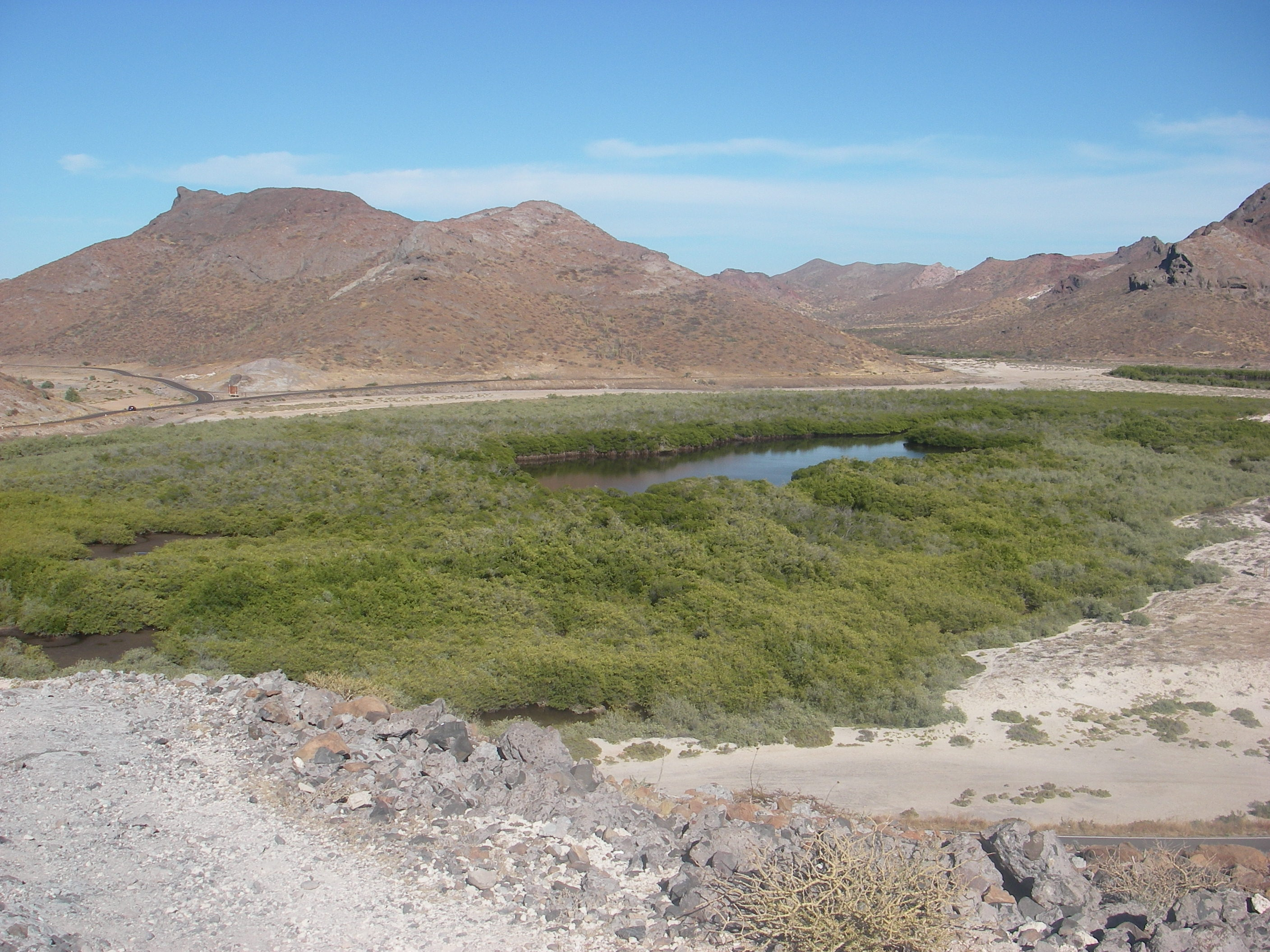 Mangroves of Balandra beach.